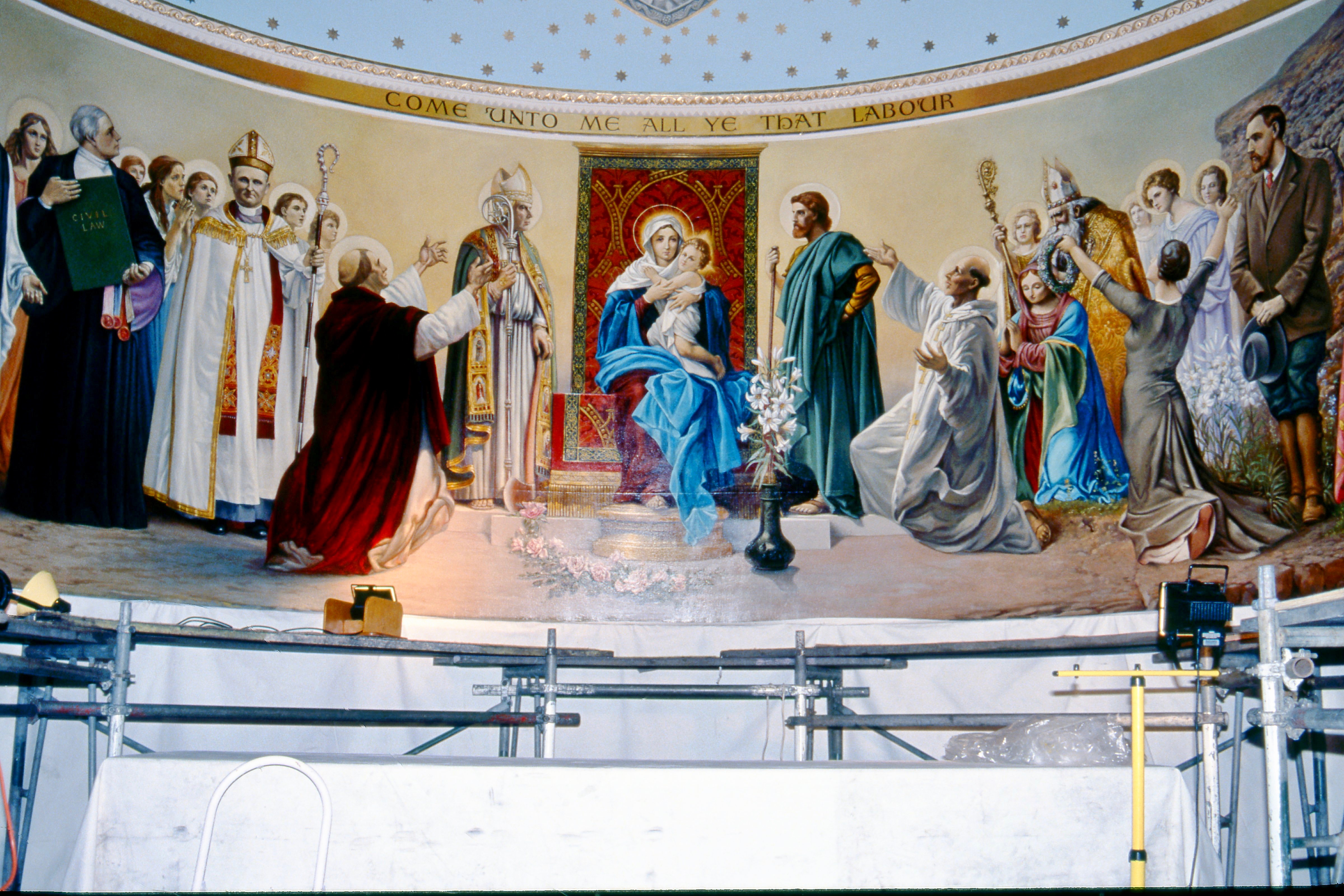 Mural in All Saints' Church, Collie, Western Australia, 5 March 1994